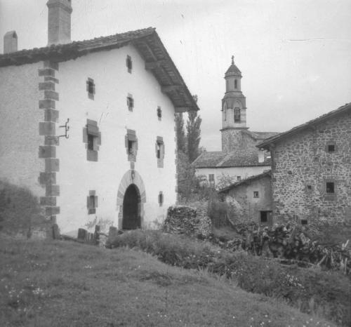 View of Alkotz